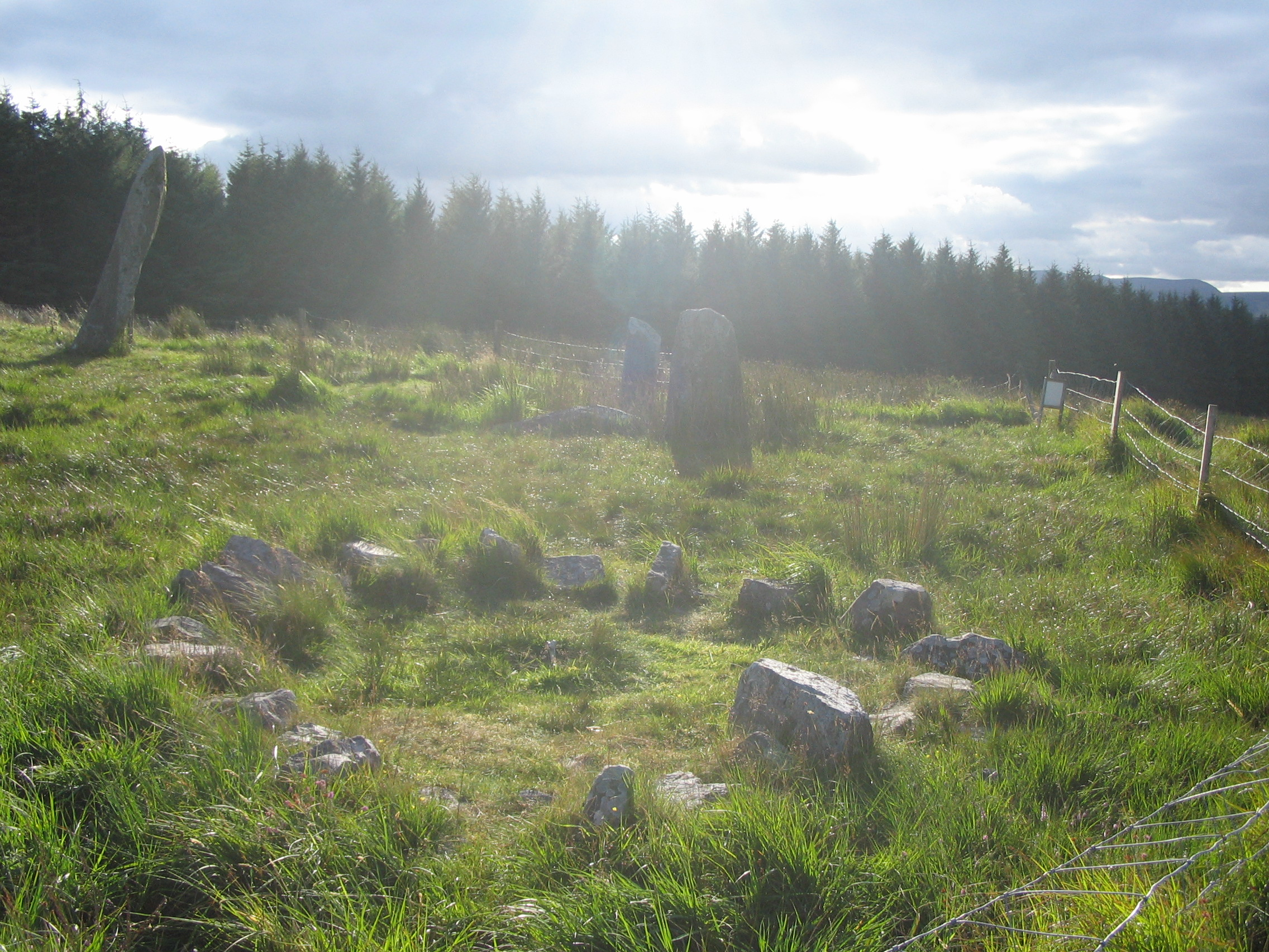 Knocknakilla megalithic complex located between Macroom and Millstreet, County Cork, Ireland. Photograph taken by user: coil00 12th August 2006.